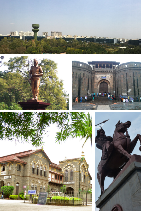 This is a montage of Pune. The files used for this montage are: and